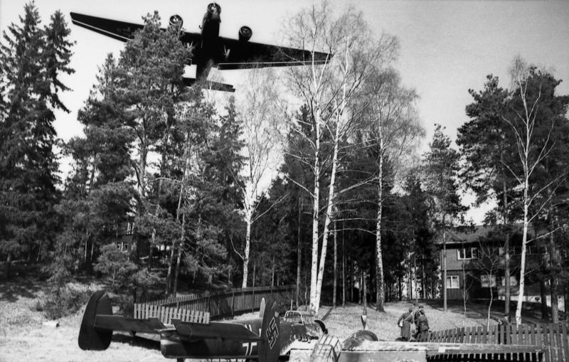 Messerschmitt Bf 110 of future night fighter ace Lt. Helmut Lent overshoot the runway in Oslo-Fornebu and came to rest in the garden of a house. A Junkers Ju 52/3m plane flies over the location. The photo has been taken by war reporters of the 5th Luftwaffe in Oslo1940.